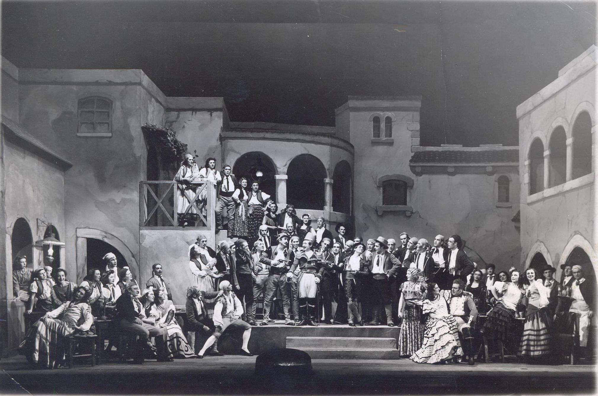 National Opera and Ballet, Sofia, 1940.